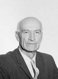 A 1965 black and white portrait of Albert Hawke, former Premier of Western Australia